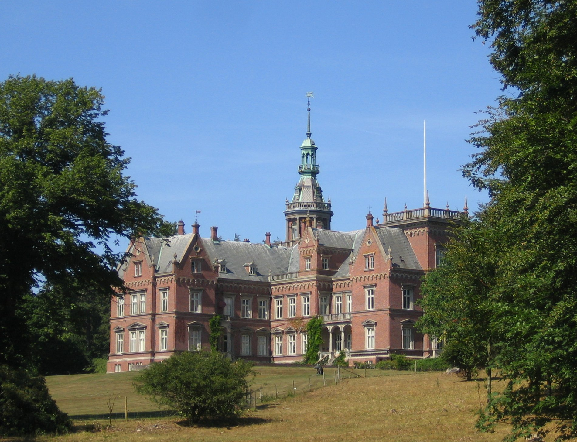 Picture of Kulla Gunnarstorp castle in Scania, Sweden.